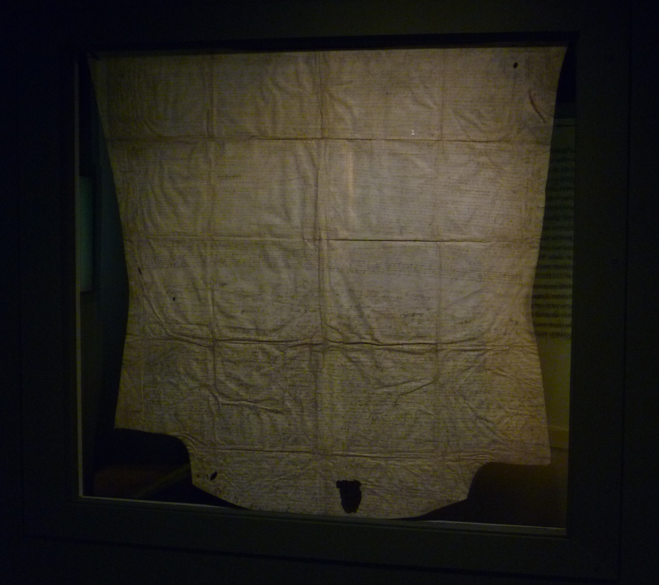 Believed to be the original from which copies were made for distribution throughout the kingdom. Photographed in subdued light. "...we promise and swear, by the great name of the Lord our God, to continue in the profession and obedience of the foresaid religion; and that we shall defend the same, and resist all those contrary errors and corruptions, according to our vocation, and to the uttermost of that power that God hath put into our hands, all the days of our life." The fifty-two words long Preamble to the Constitution of the United States (1787) echoes phrases in the National Covenant (given in brackets): We the people of the United States [we noblemen, barons, gentlemen, burgesses, ministers and commons] in order to form a more perfect union [considering the great happiness which may flow from a full and perfect union] establish justice [judicatories be established and ministration of justice among us] insure domestic tranquillity [procure true and perfect peace] provide for the common defense [stand to the mutual defence] promote the general welfare [for the common happiness to conduce for so good ends and promote the same] and secure the blessings of liberty to ourselves and our posterity [security of said liberties to ourselves and our posterity] do ordain and establish this Constitution for the United States of America [do ordain the Covenant and Constitution of this Kingdom]. -- from D. A Bruce, The Mark of the Scots, New York 1998